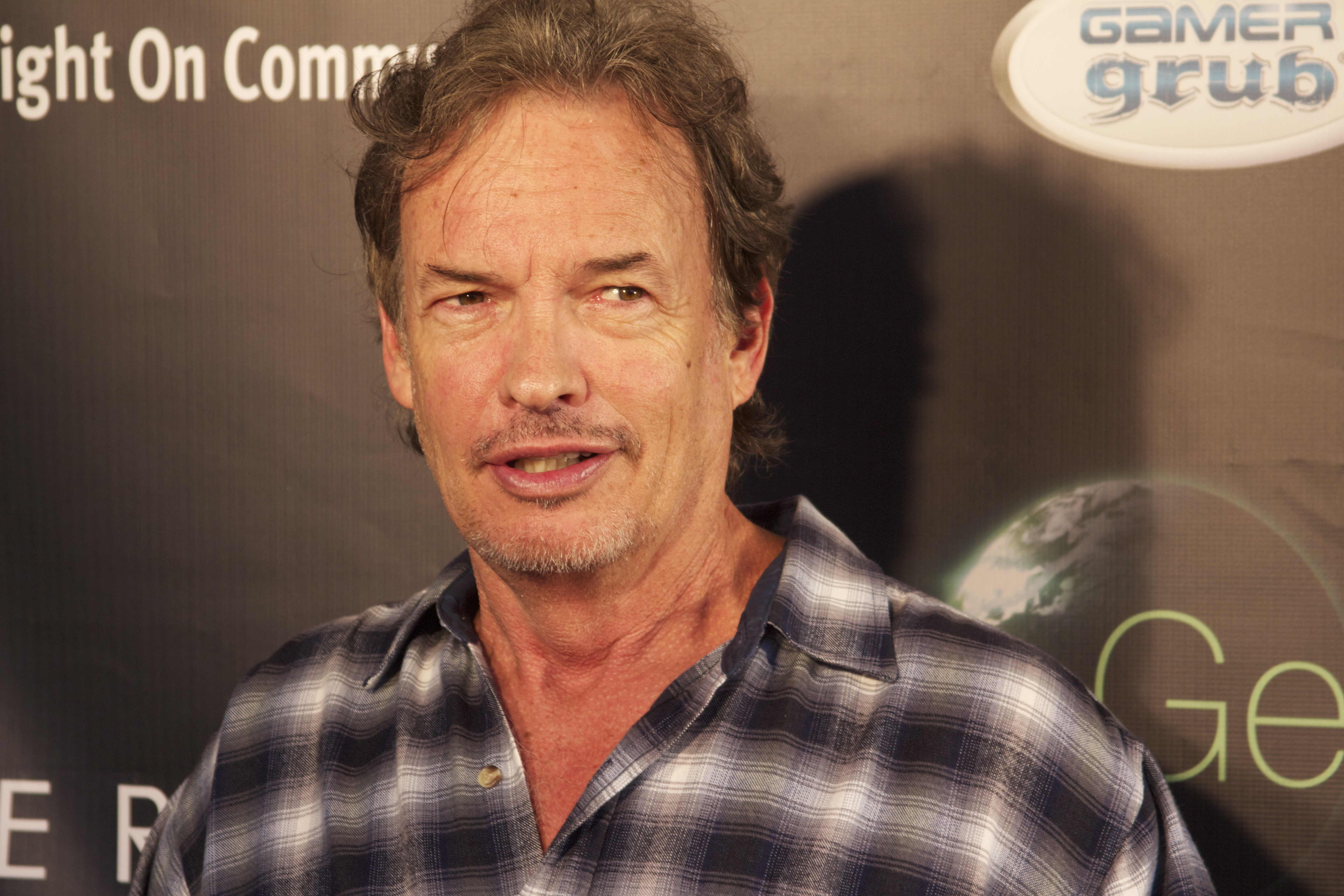 Gary Graham at 2012 San Diego Comic-Con International